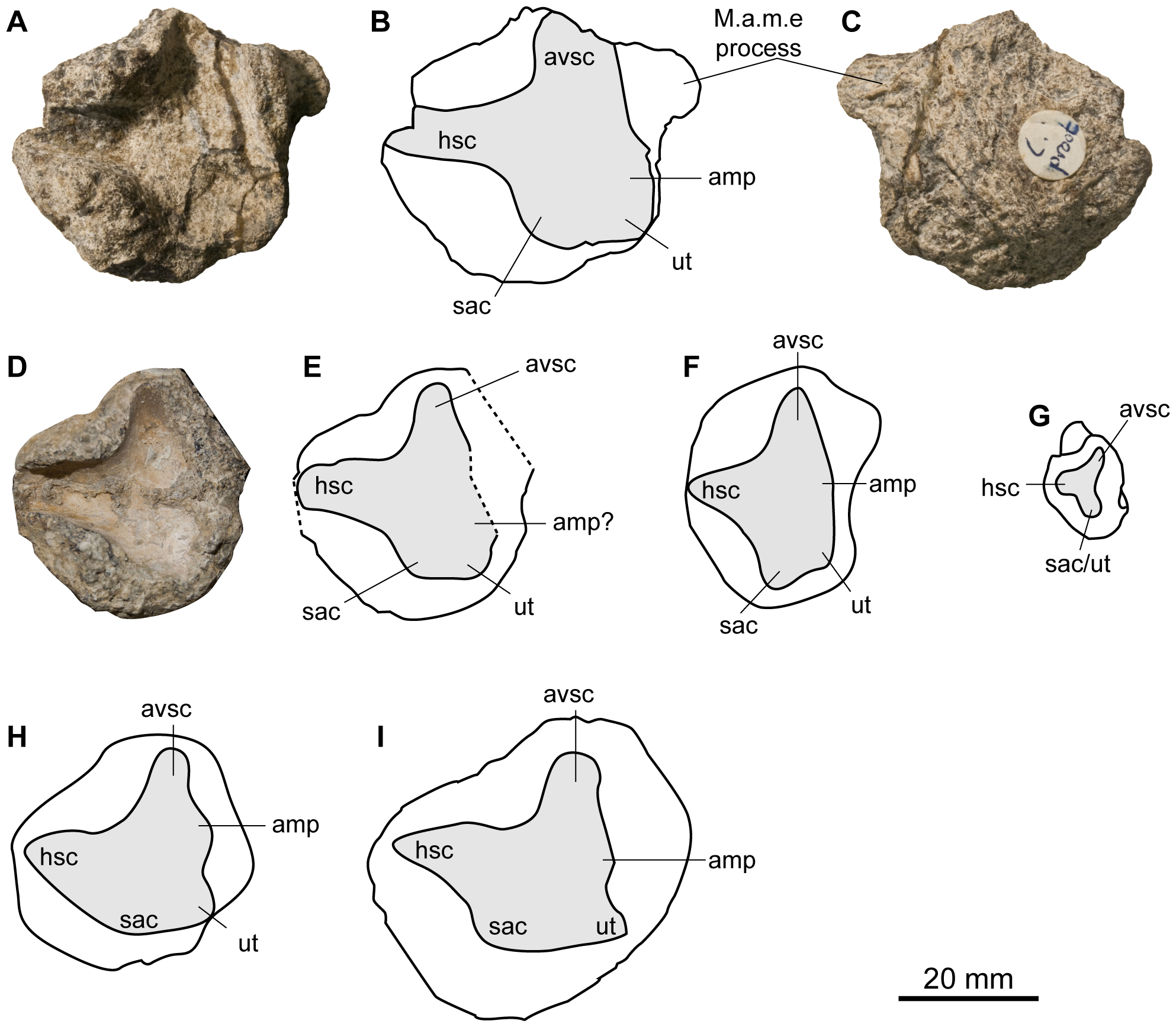 Left prootic of Acamptonectes densus compared to that of other ophthalmosaurids. A–C: A. densus (GLAHM 132588, holotype), in posterior view (A,B) and anterior view (C). D,E: A. densus (SNHM1284-R), in posterior view. F: Platypterygius australis (QMF14339), in posterior view redrawn from Kear [58]. G: Sveltonectes insolitus (IRSNB R269, holotype), in posterior view, from Fischer et al. [34]. H: Ophthalmosaurus icenicus (NHMUK R4522, mirrored), in posterior view, redrawn from Kirton [43]. I: Ophthalmosaurus icenicus (NHMUK R2161), in posterior view, redrawn from Andrews [51]. Abbreviations: amp: ampulla; avsc: impression of the anterior vertical semicircular canal; hsc: impression of the horizontal semicircular canal; M.a.m.e. facet: facet for attachment of musculus adductor mandibulae externus; sac: sacculus; ut: utriculus.